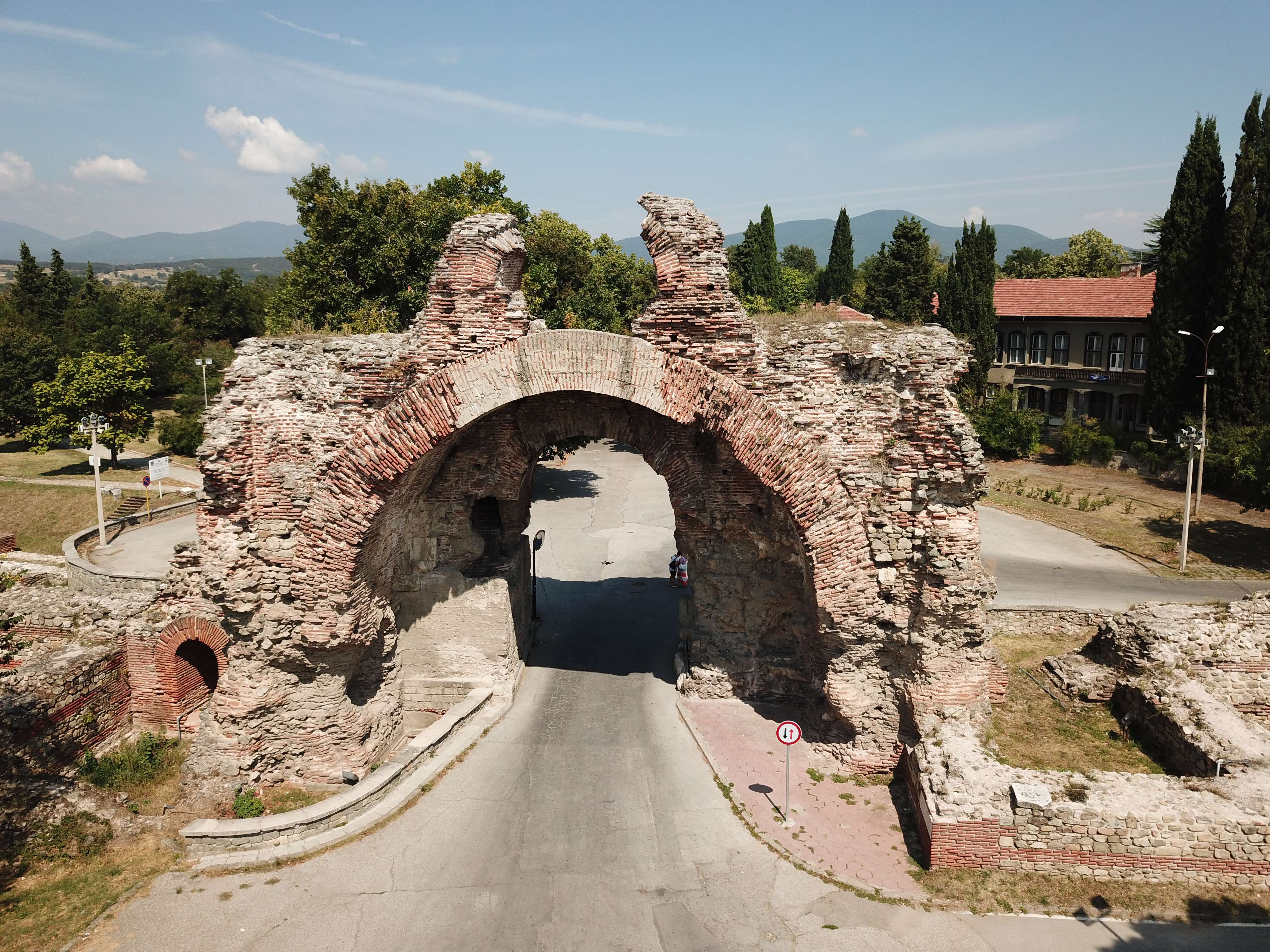 Kamilite